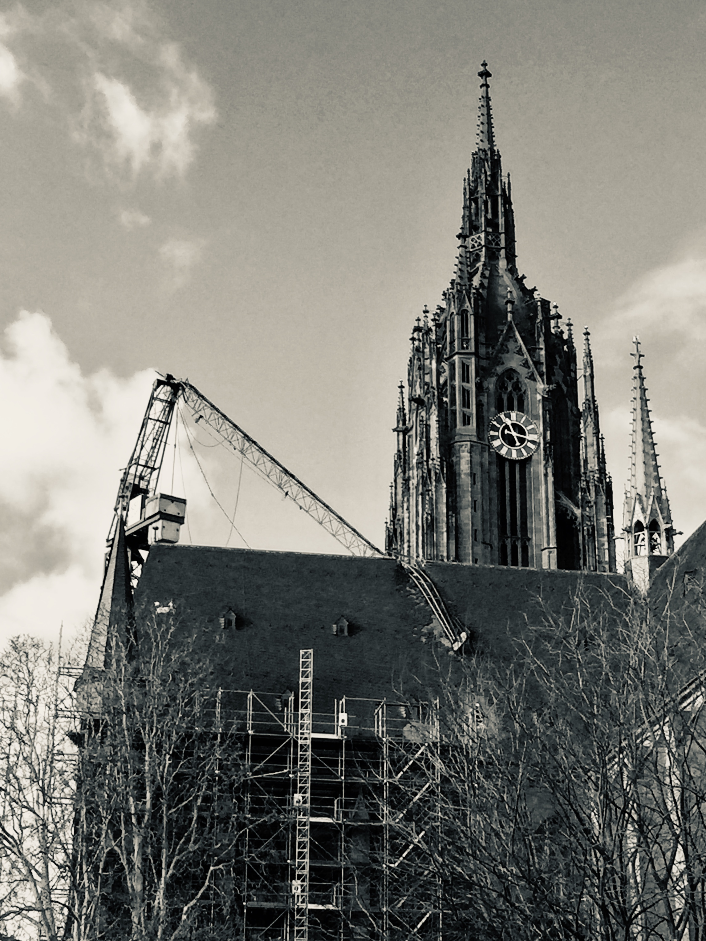 On February 10, 2020, a mobile crane crashed into the roof of the southern transept of Frankfurt Cathedral, damage caused by storm Ciara (Sabine).